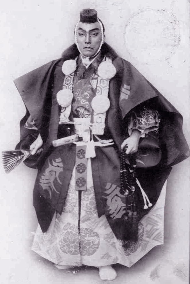 Danshirō Ichikawa II as Benkei in the April 1911 Tokyo Kabuki-za production of Kanjinchō